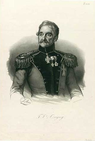 Frederik Julius d'Origny (1774-1838), Danish army officer